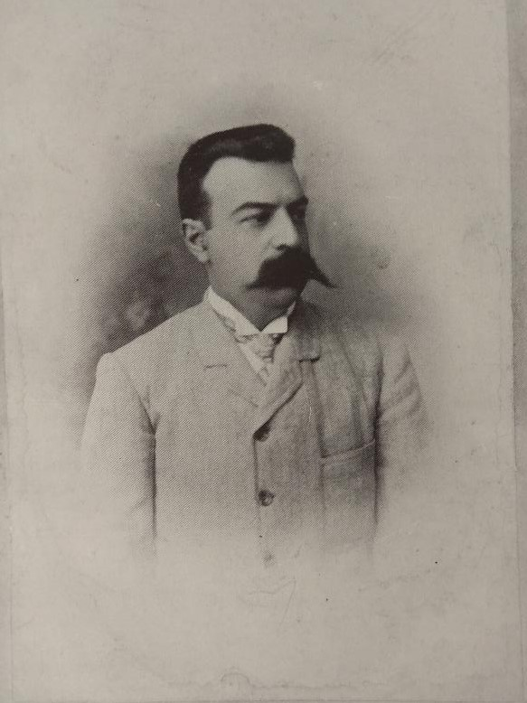 Alekos Fotadis (1870 – 1943) – Greek landowner and poet of Smyrna, president of Greek sports club of Smyrna «Panionios». The picture was taken not later than 1922.